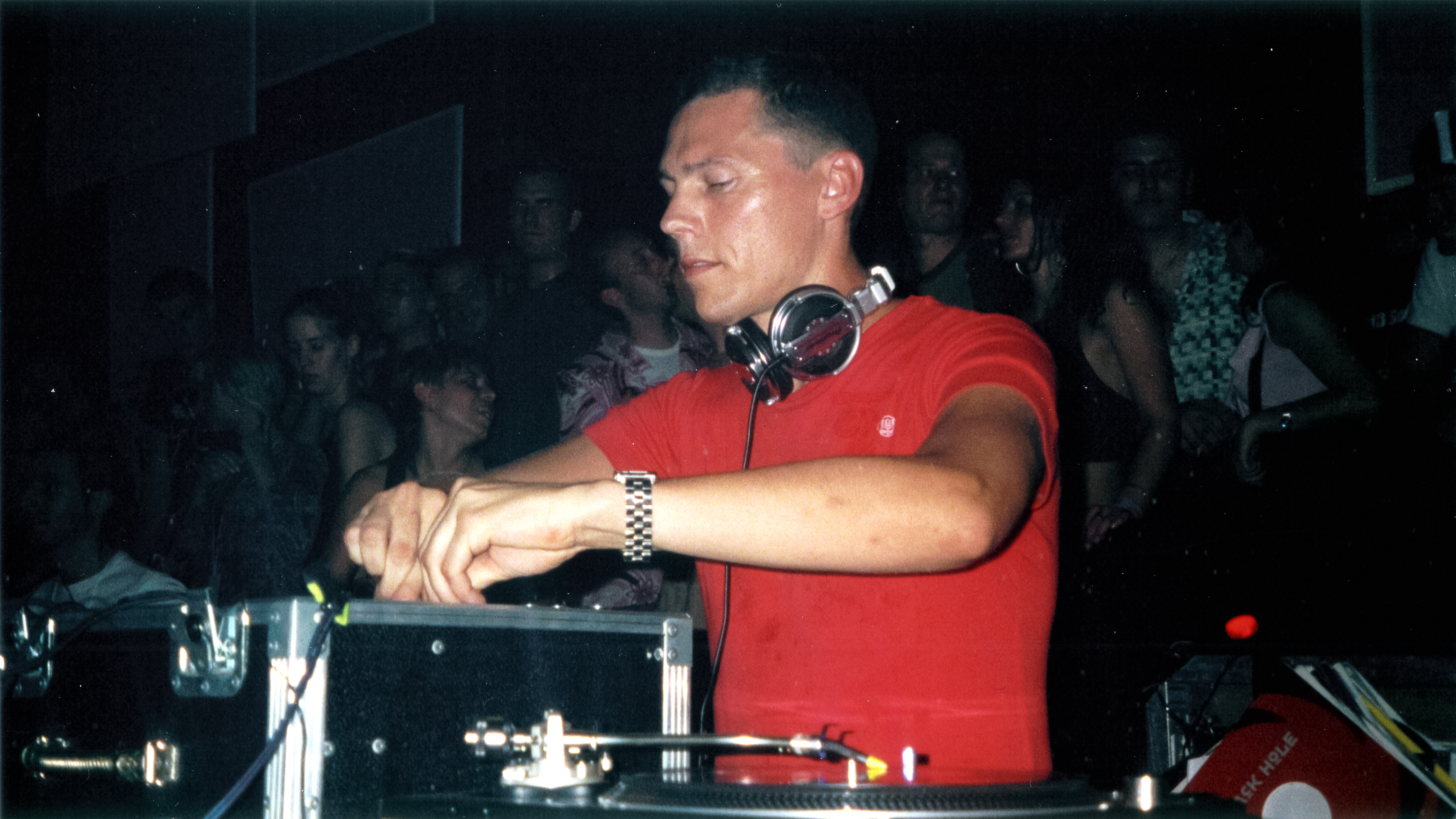 Tiësto mixing at The Love from Above party, the night after Love Parade 2003, in Columbiahalle, Berlin.